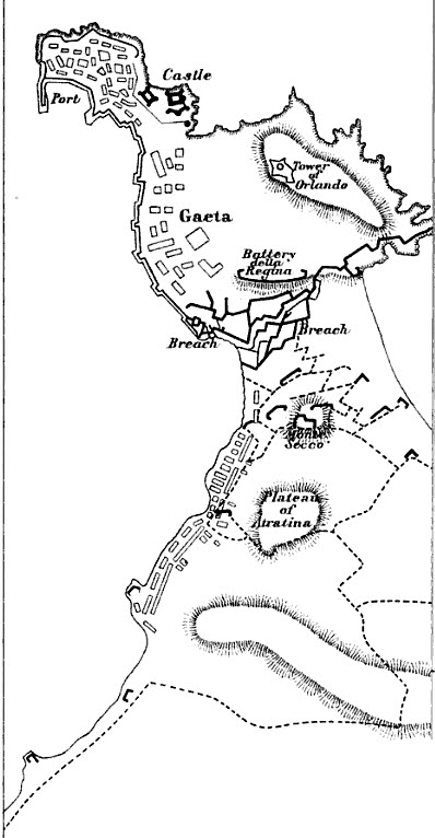 Map of the 1806 Siege of Gaeta showing the French parallels and the Neapolitan defenses and forts.